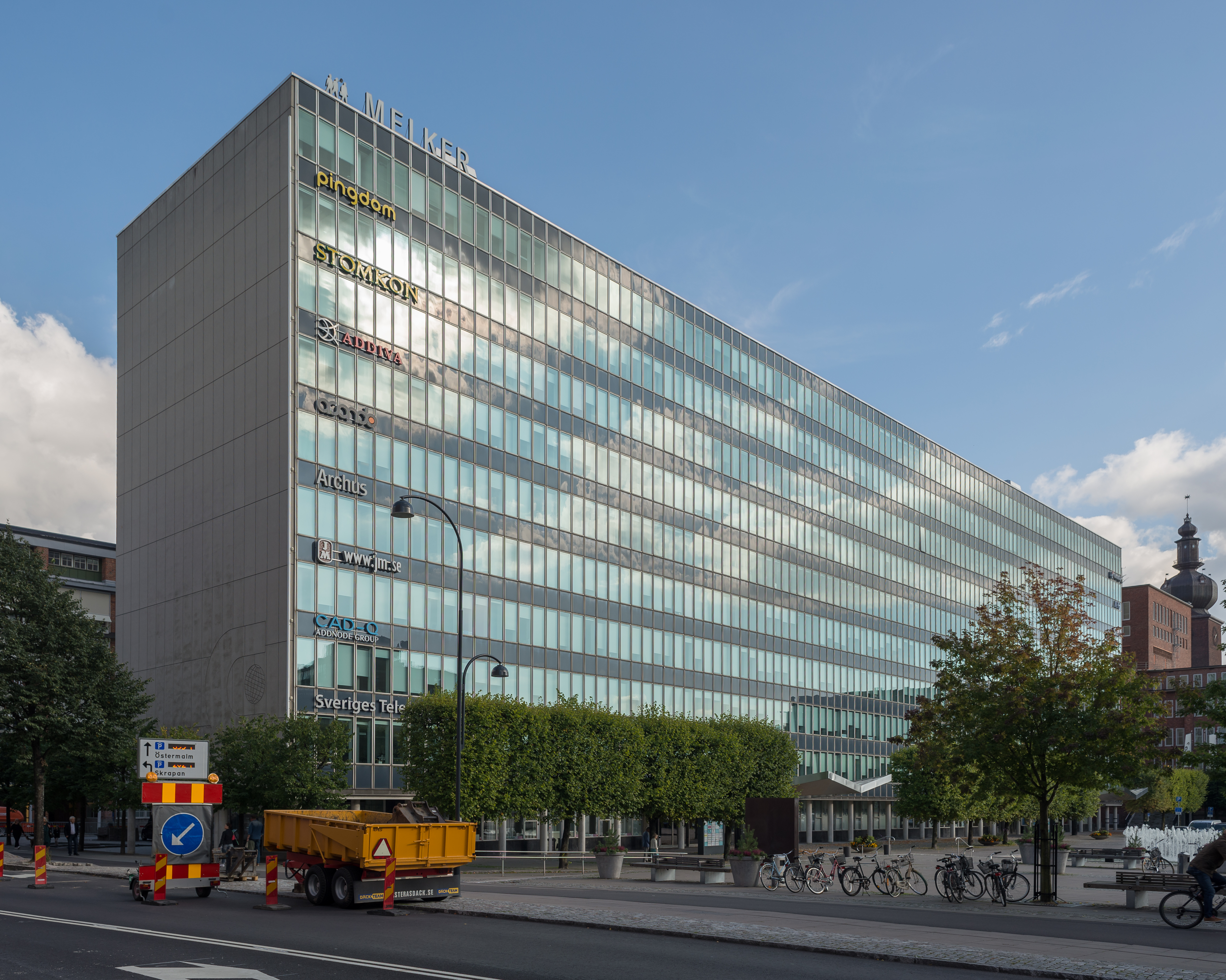 The Melker building in Västerås, Sweden. Built 1960, architect Sven Ahlbom.